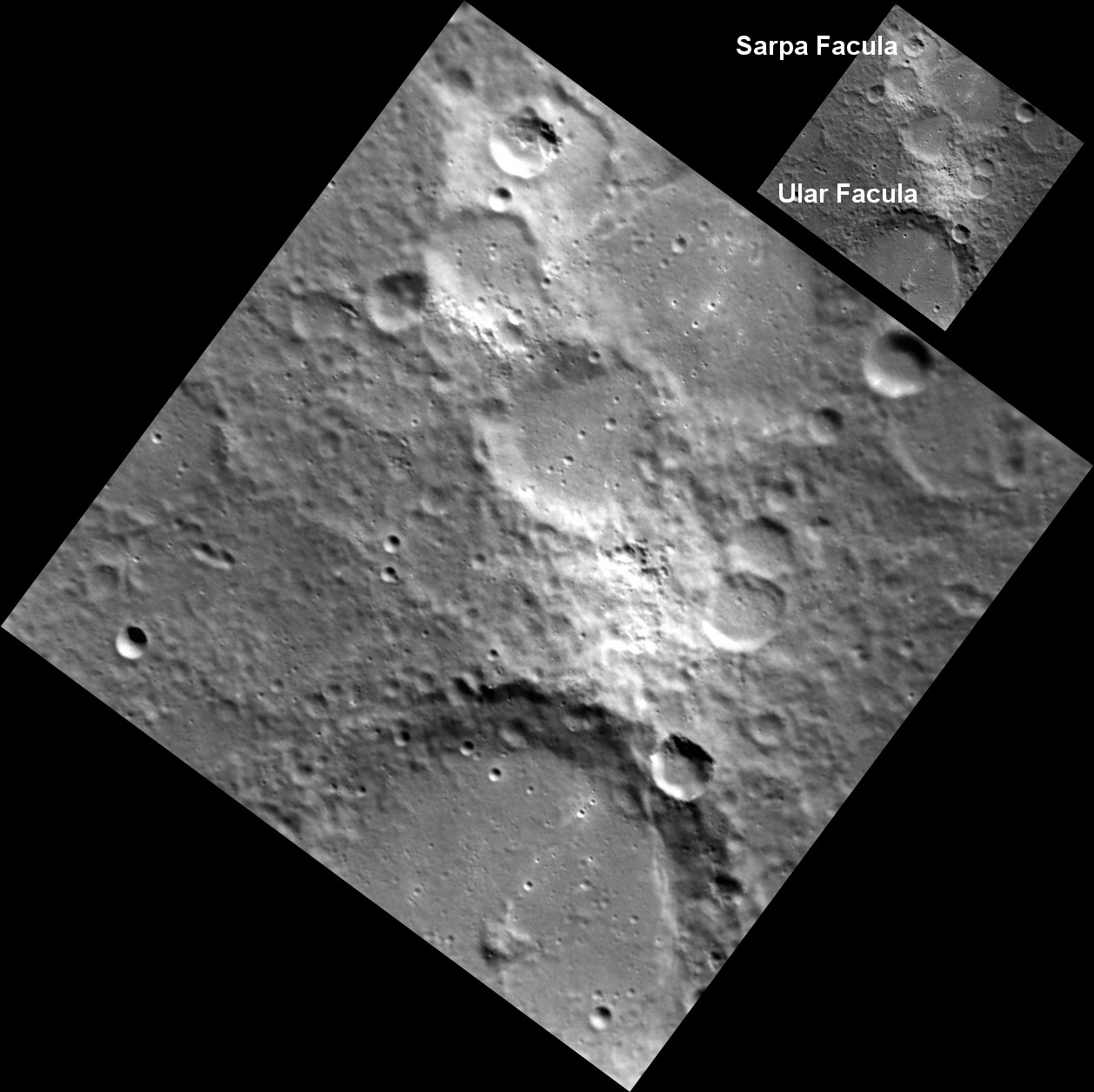 Ular Facula near center and Sarpa Facula near top, on Mercury. MESSENGER Narrow Angle Camera image, rotated so north is up. Emission Angle: 2.9 Incidence Angle: 60.3 Latitude: -54.9 Longitude: 329.2 Phase Angle: 63.2